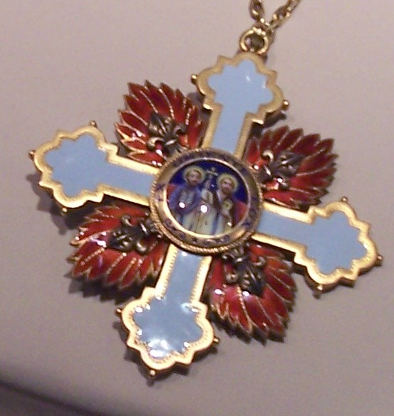 The Saint Cyril and Methodius cross, Order of Merit, the highest official decoration in pre-communist Bulgaria. The original photo was taken by Petko Yotov (user:5ko) in 2005, at the National Museum of Military history in Sofia.